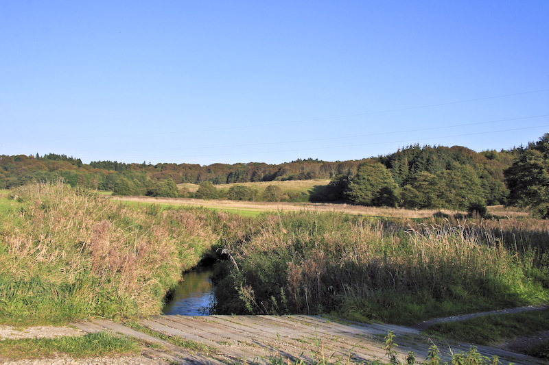 Creek in the northern part of Denmark close to Frederikshavn, Bangsbo Å Photo taken by Jørgen Larsen, 2006-10-06.